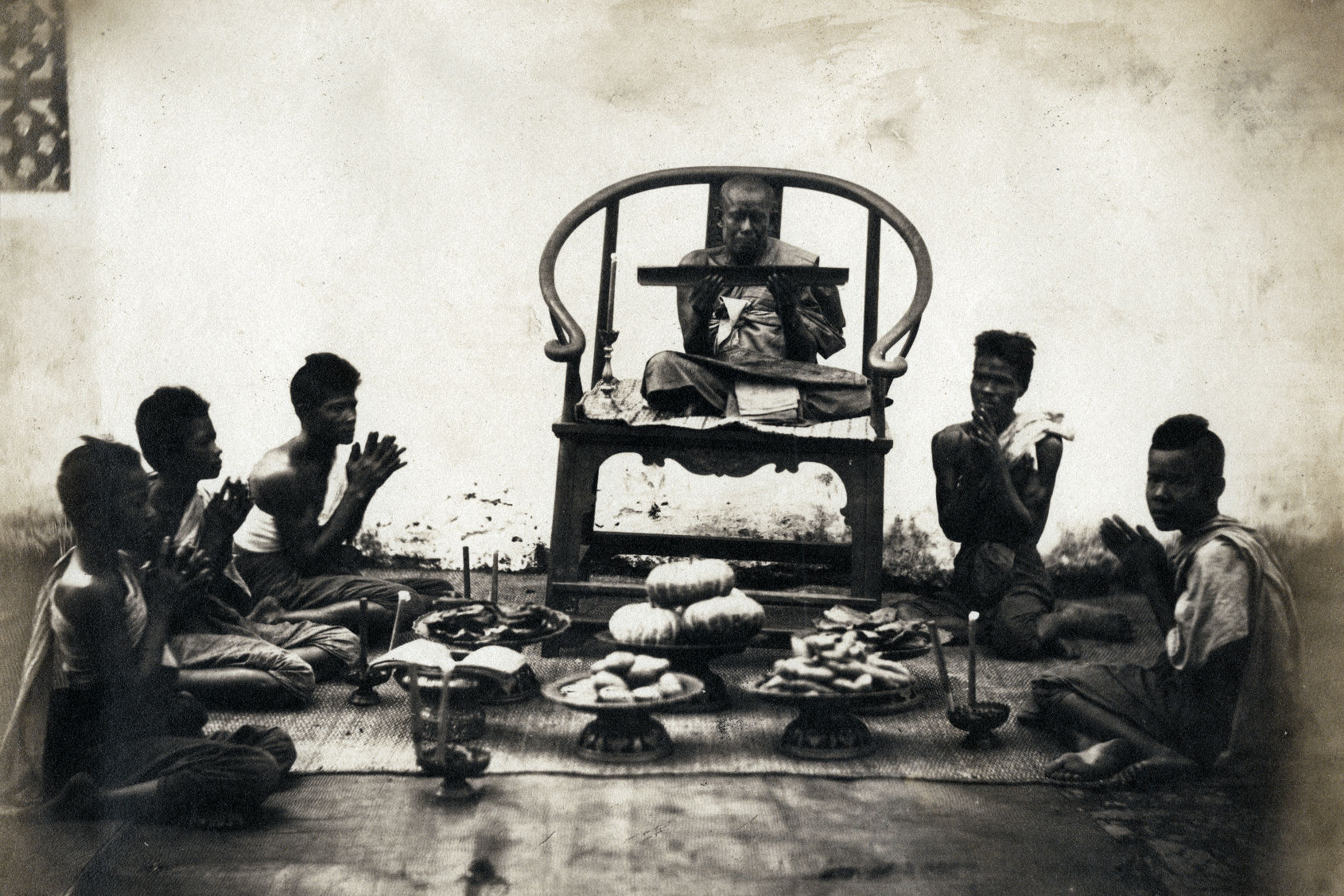 Monk chants paritta to Siamese women